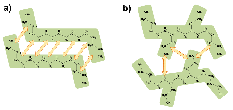 London forces in alkanes